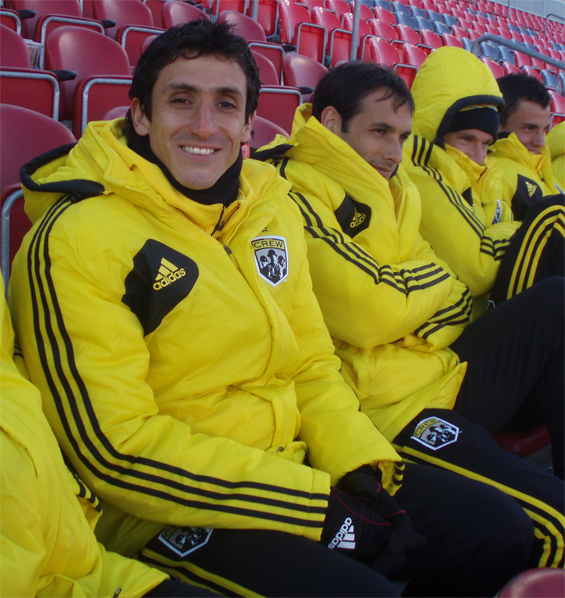 Photo of Milovan Mirošević (left) taken after today's match which finished Columbus 1 – Toronto FC 0.